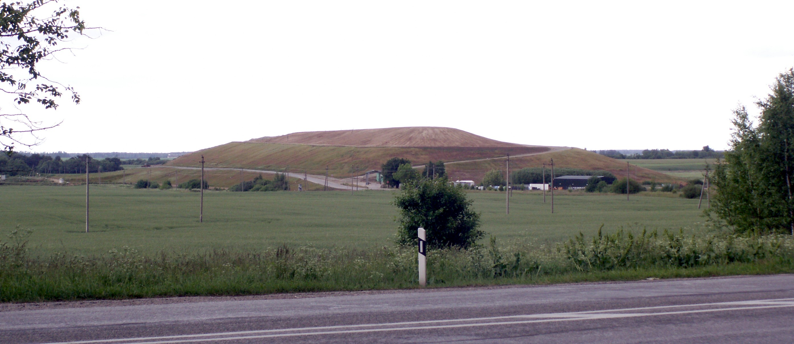 Landfill in Kairiai, Šiauliai district